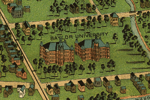 1892 Aerial view from East-northeast of Baylor University (its two buildings are Burleson Hall, left, and Old Main, right) and adjacent Carroll Field. Cropped view of Waco, Texas 1892, an 1892 chromolithograph created by A. L. Westyard and originally owned by Shober & Carqueville Lithographing Company, in Chicago, Illinois, U.S.A. First published in 1892 by D. W. Ensign & Company. The image is from a digital reproduction of the lithograph in the Library of Congress Geography and Map Division, located in Washington, D.C., U.S.A.